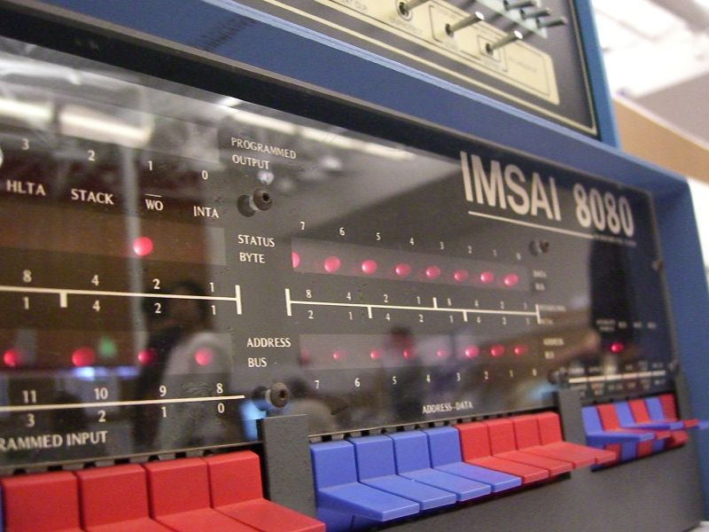 Close up of IMSAI 8080 Bus 100 computer